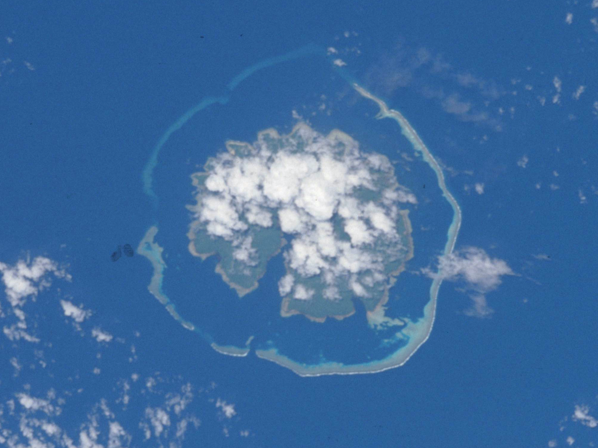 NASA astronaut image of Utupua, Santa Cruz Islands, Solomon Islands